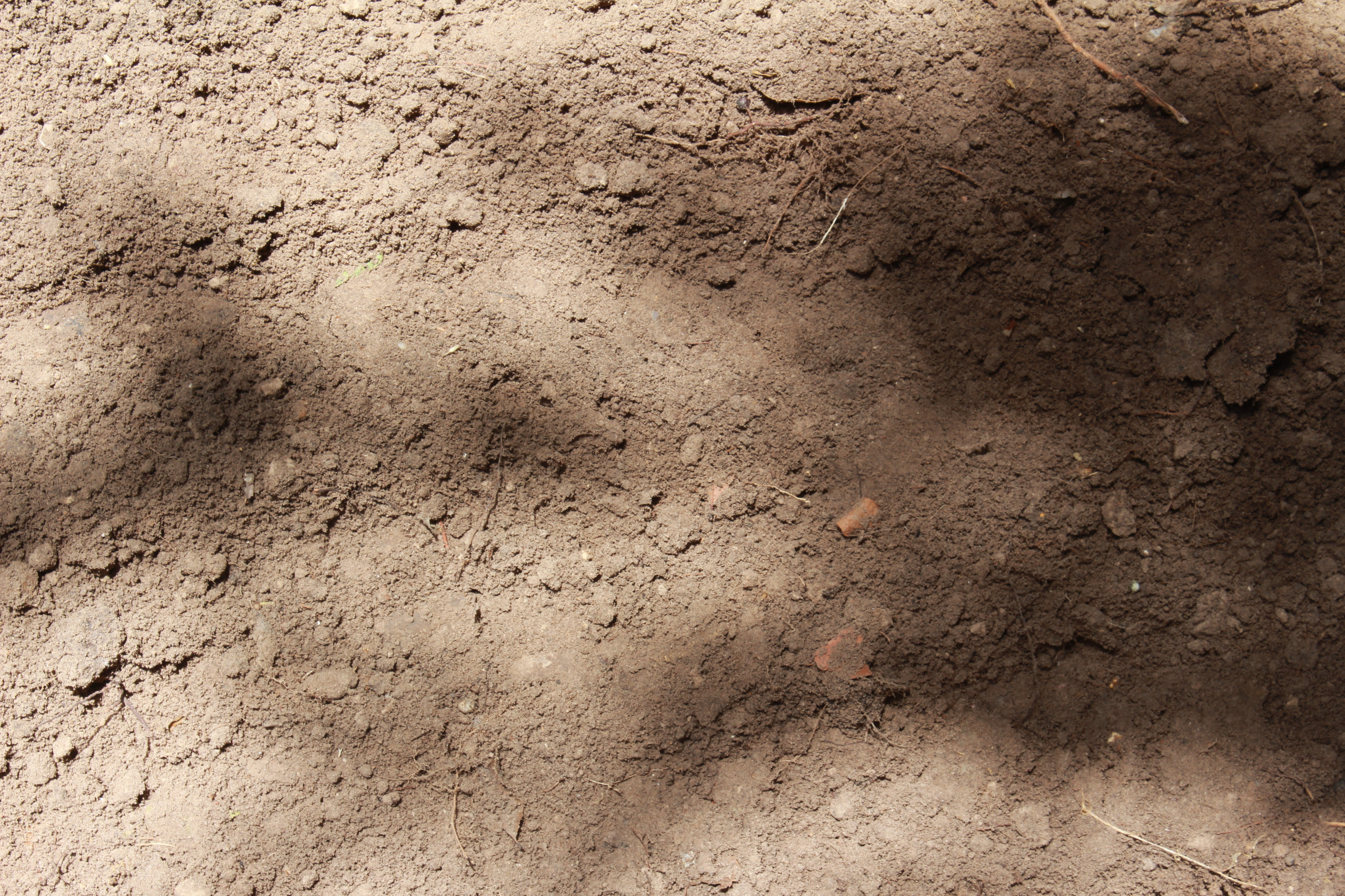 Loose dirt in Houston, TX, with a shadow cast over the dirt pile.